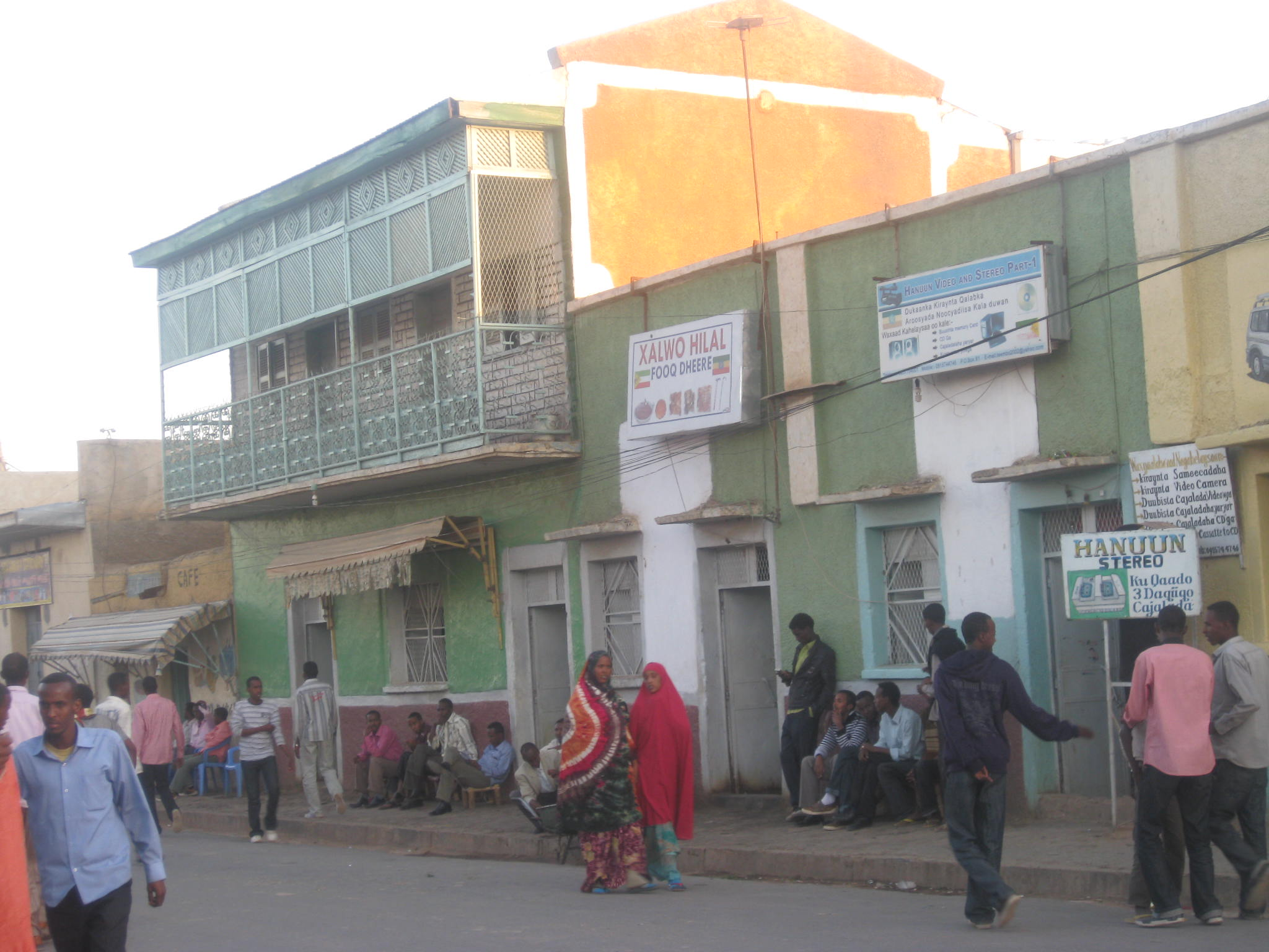 Muqaalka taariikhiga ka ah magaalada Jijiga ee fooqdheere